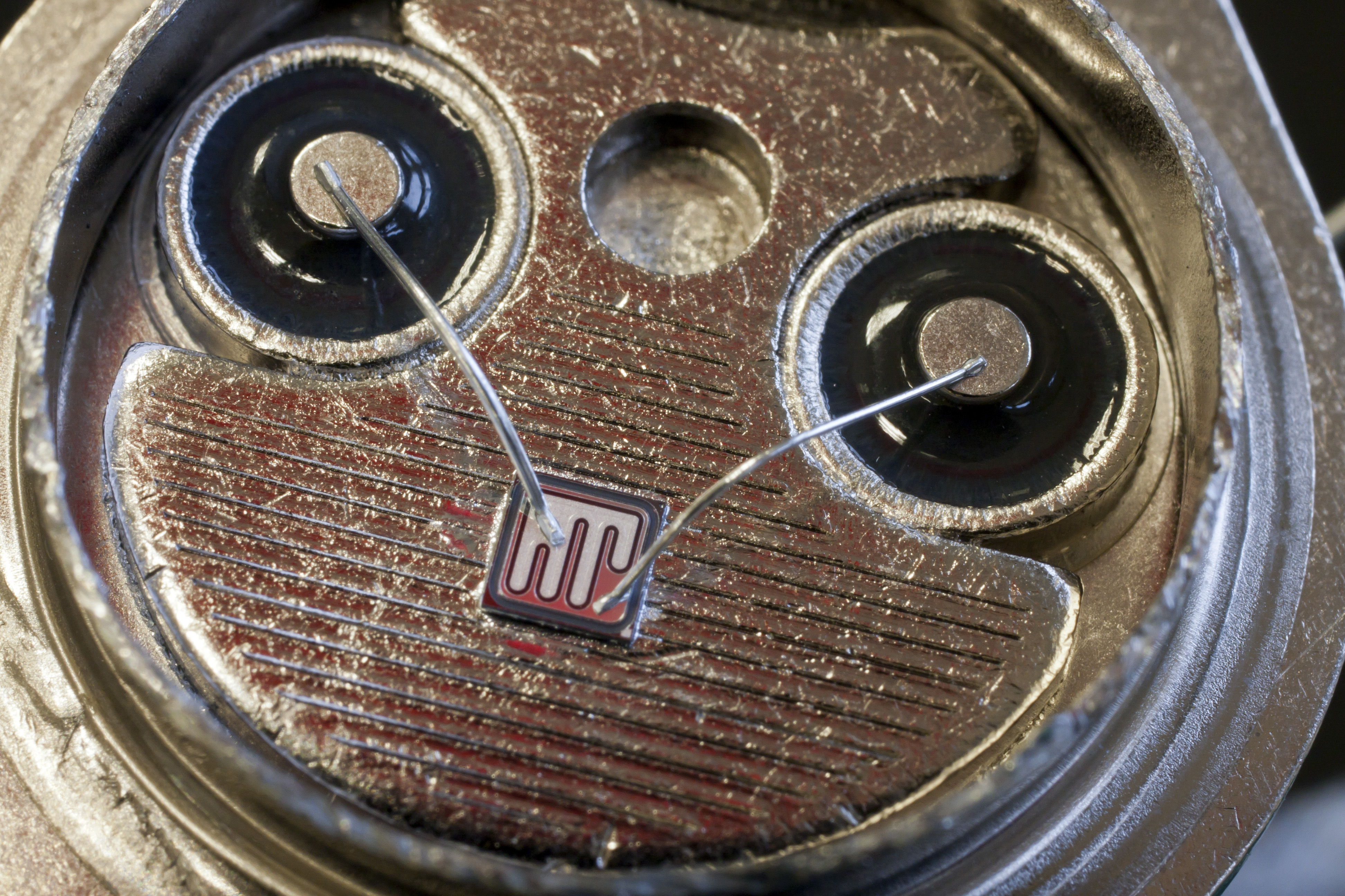 Inside look of a power transistor, type 2N3055